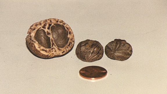 Picture of a Mongongo nut sawn open with removed seeds.